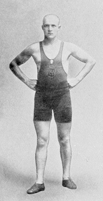 Kaarlo Koskelo at the 1912 Summer Olympics